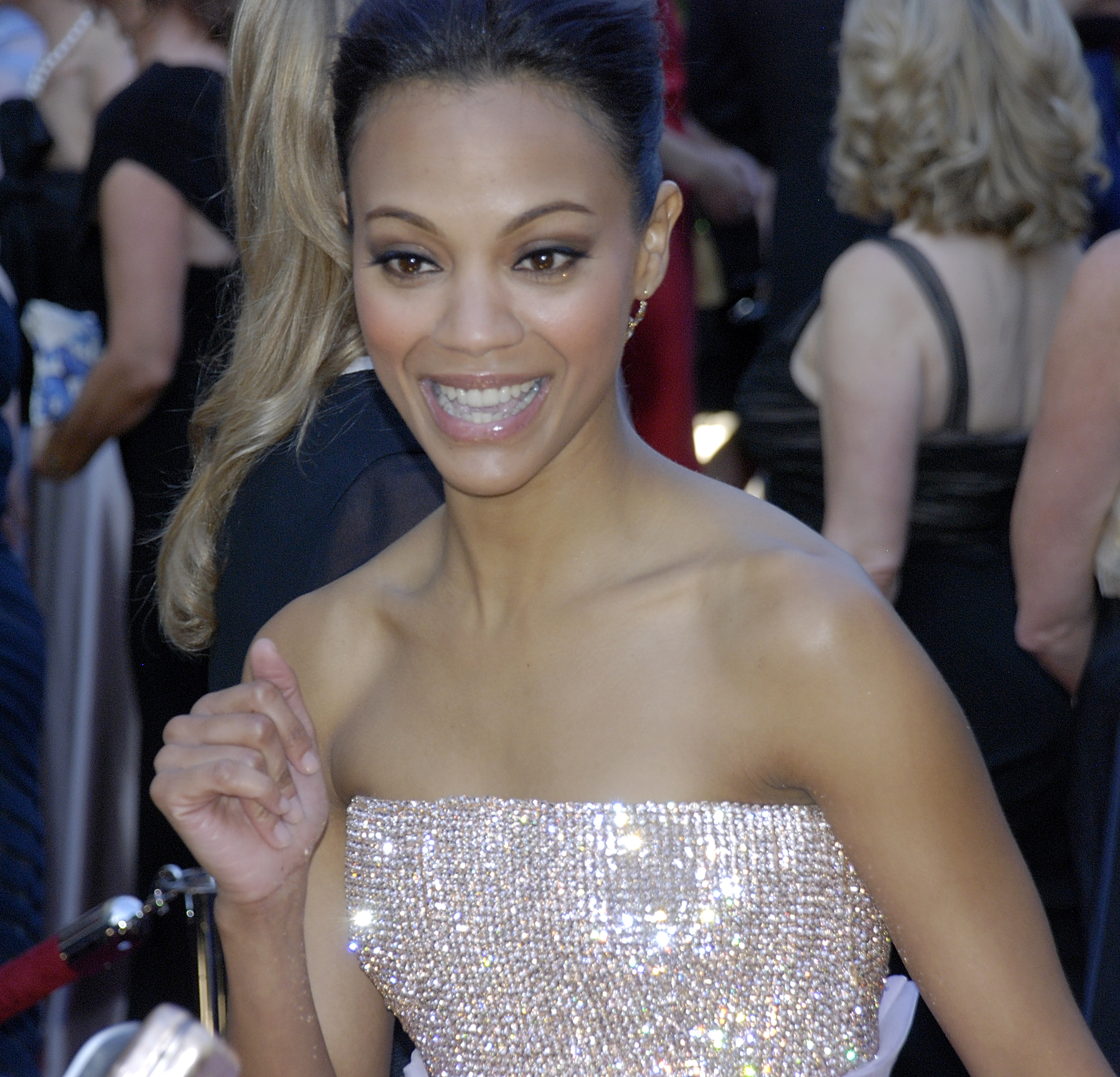 Actress Zoe Saldana at the 2010 Academy Awards